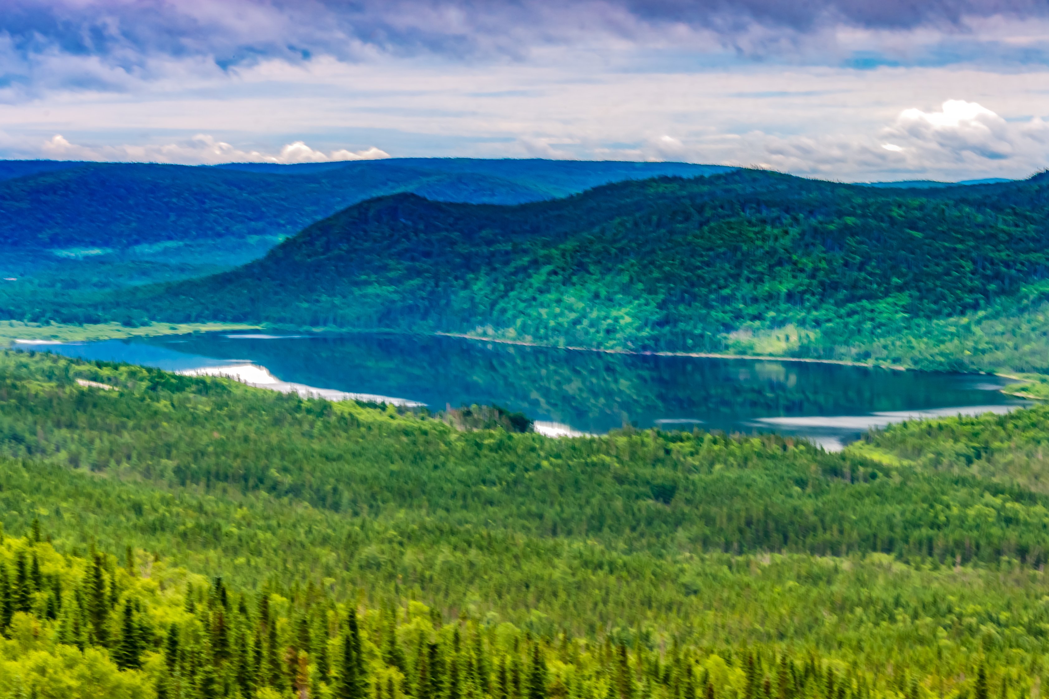 Newfoundland and Labrador (/nÊ²uËfÉnËlÃ¦nd Ã¦nd ËlÃ¦brÉdÉr/